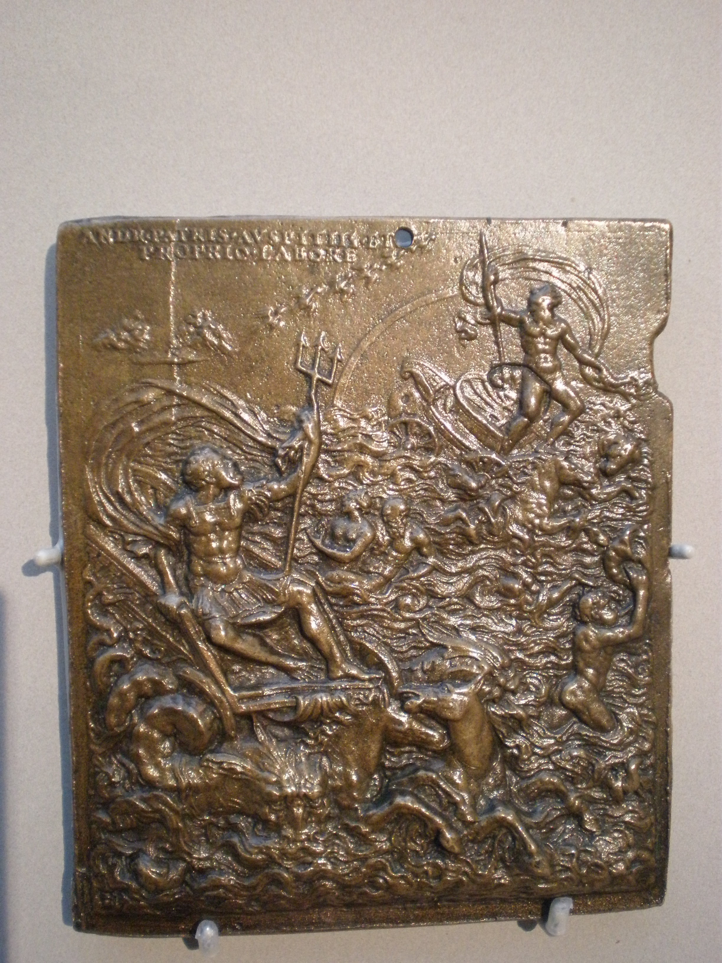 Allegorical Triumph of Giannettino Doria Plaquette 1541-42 Italy, Genoa Leone Leoni Bronze, cast In 1540, the quarrelsome Leone Leoni was sentenced to the papal galleys following a brawl. He was later released from slavery by Andrea Doria, who was a famous admiral of Charles V's imperial fleet, the ruler of Genoa, and a distinguished art patron. Leoni remained in his service until 1542 when he moved to Milan to work for the imperial mint. One of the greatest men of war of his time, Andrea Doria's naval prowess fostered comparisons to the god of the sea Neptune (comparisons which Doria himself encouraged, notably in the works of art he commissioned). His adopted son and chosen successor Giannettino followed the same glorious tracks, as he captured the Ottoman Turkish corsair Dragut in June 1540. This is probably the event commemorated in this plaquette. Leoni represented both father and son poised in sea-chariots. Brandishing tridents, the attribute of Neptune, they control the stormy seas swarming with fantastical creatures. To the right, the profile of the triton blowing the trumpet resembles that of Leoni himself. In portraying himself with the Doria, Leoni would not only make a statement regarding his status as artist; it also suggests his gratitude towards his benefactor and patron. In the same years, Leoni had expressed his thankfulness in medal portraits of Andrea Doria, on the reverse of which he evoked his liberation from the galleys. Collection ID: 267-1864 This photo was taken as part of Britain Loves Wikipedia in February 2010 by David Jackson.